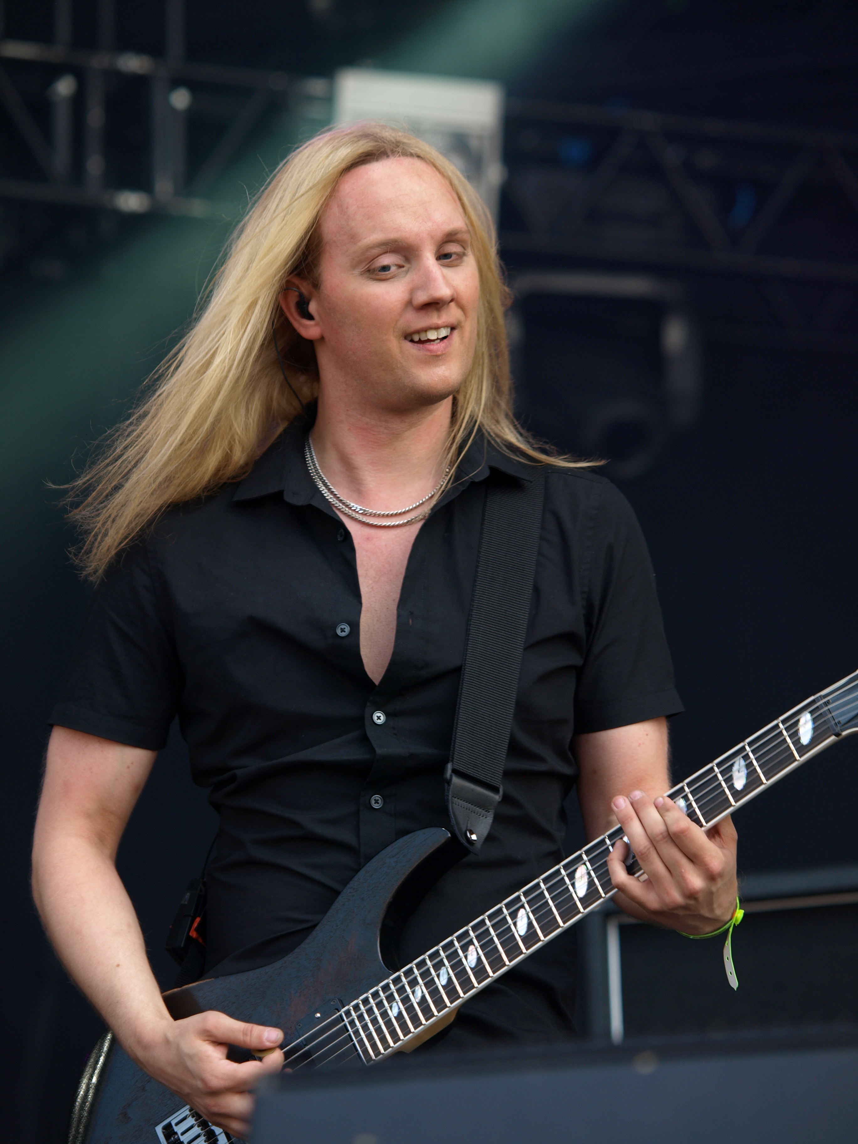 Swedish band Amaranthe at Tuska Open Air 2013